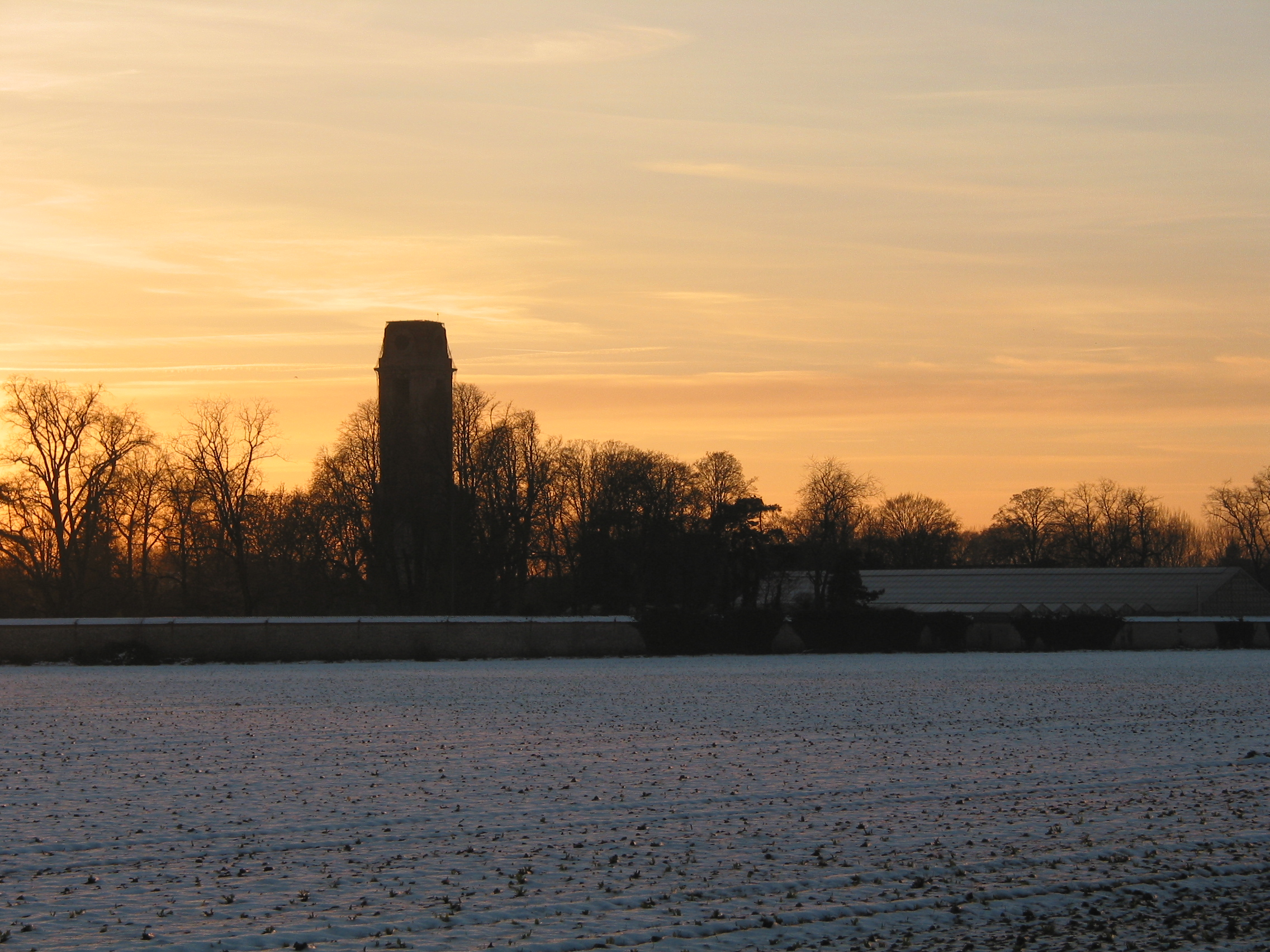 Cambron-Casteau (Belgium), the tower of the old abbey at sunset.